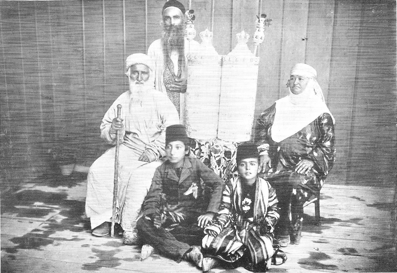 The picture are from old book (that was published in 1899), some of the picture are fro 1899, some are even older: This work or image is now in the public domain because its term of copyright has expired in Israel (details). According to Israel's copyright statute from 2007 (translation), a work is released to the public domain on 1 January of the 71st year after the author's death (paragraph 38 of the 2007 statute) with the following exceptions: A photograph taken on 24 May 2008 or earlier — the old British Mandate act applies, i.e. on 1 January of the 51st year after the creation of the photograph (paragraph 78(i) of the 2007 statute, and paragraph 21 of the old British Mandate act). If the copyrights are owned by the State, not acquired from a private person, and there is no special agreement between the State and the author — on 1 January of the 51st year after the creation of the work (paragraphs 36 and 42 in the 2007 statute). See also category: PD Israel & British Mandate. For the scan and the the crop: The name of the book (in hebrew) is: "מראה ארץ ישראל והמושבות" by (in hebrew): "ישעיהו ראפאלוביטש ושותפו משה אליהו זאכס" Bukharan Jews